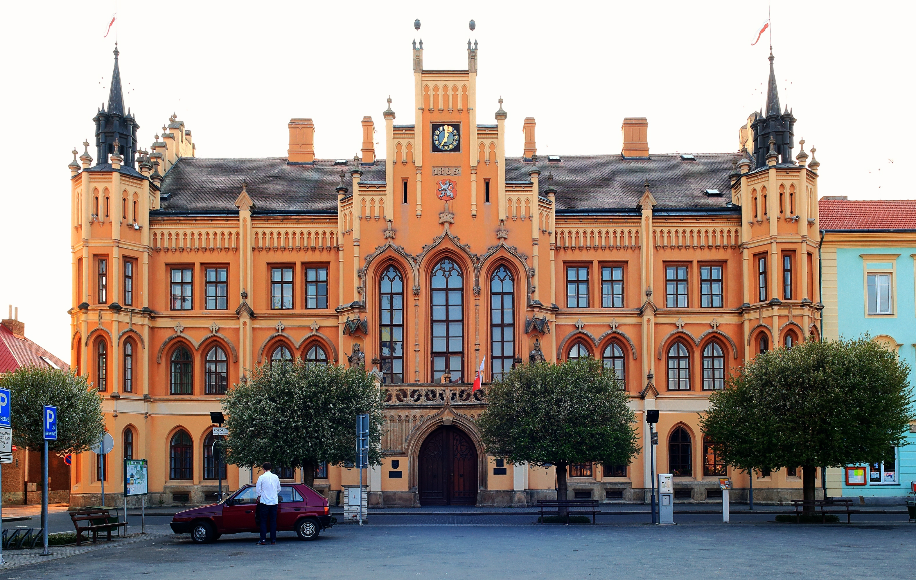 Novy Bydzov (50mls east of Prague)